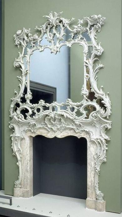 Chimneypiece and overmantel, about 1750 V&A Museum no. 738:1 to 3-1897 Techniques - Pinewood, marble and mirror glass Artist/designer - Unknown Place - London, England Dimensions - Height 321.9 cm, Width 195.6 cm Object Type - The combined chimney-piece and overmantel as a decorative unit was a feature of 16th-century interiors. During the 17th century such features were designed by architects. By the mid-18th century they had become a vehicle for elaborate asymmetrical carving, often designed by the craftsmen who made them. People - This chimney-piece was commissioned by the Reverend Gideon Murray for the drawing room of Winchester House, Putney. Murray acquired the house through his marriage into the Huguenot Montelieu family. His wife's great uncle, James Baudouin, a Huguenot refugee from Nîmes, France, settled in Putney in 1729, when he built or rebuilt Winchester House. It was bought by the Museum from Walter Rye, a former resident of Winchester House. Materials & Making - The merging of the carved wooden overmantel with the marble fire surround is typical of Rococo interior decoration. Some carvers worked both in wood and marble, and it is probable that all the elements of this chimney-piece were designed and made in the same workshop.